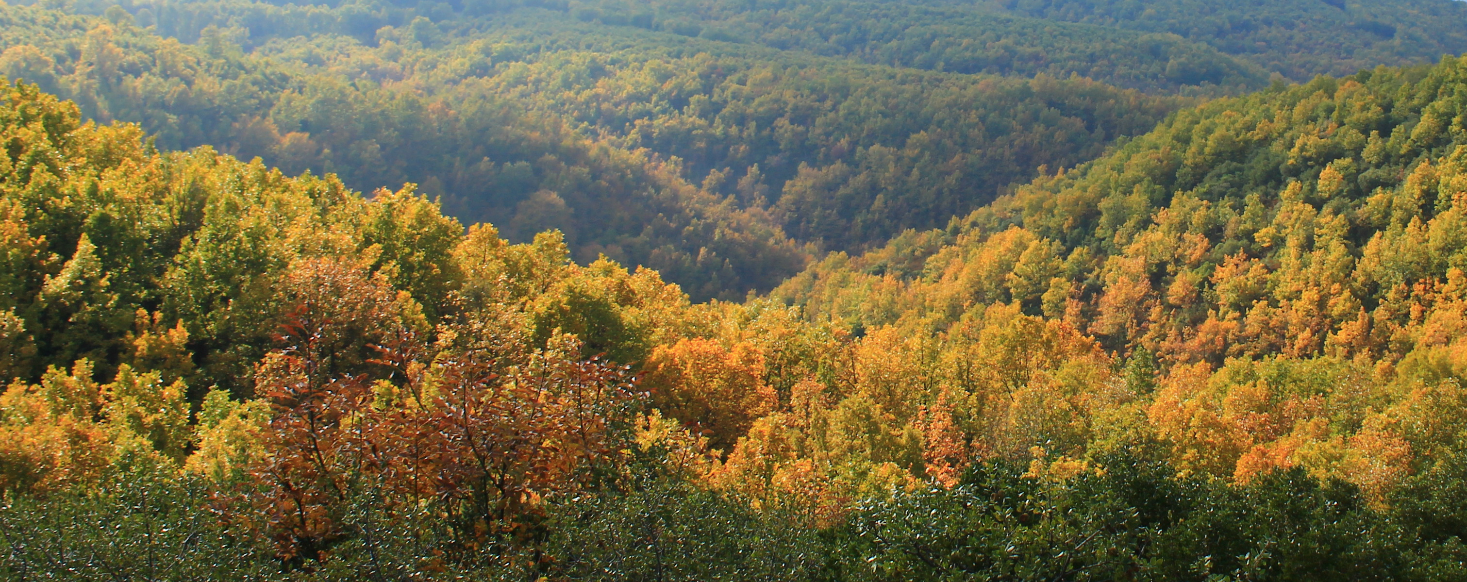 This is a photography of Natura 2000 protected area with ID GR1270001